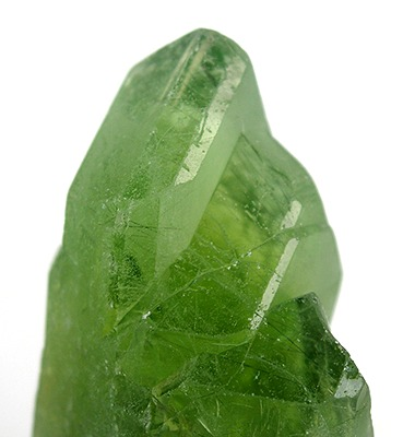 Olivine Locality: Sapat Gali (Soppat; Suppat; Sumpat), Manshera, Naran-Kagan Valley, Kohistan District, North-West Frontier Province, Pakistan (Locality at ) Size: miniature, 3.5 x 2.2 x 1.2 cm Peridot This is one of the more beautiful miniatures I have seen, as it has sharp crystals and a high gemminess to it. Many larger peridots from here tend to be murky and dull, and rounded. This, though, is a gorgeous lime-green.